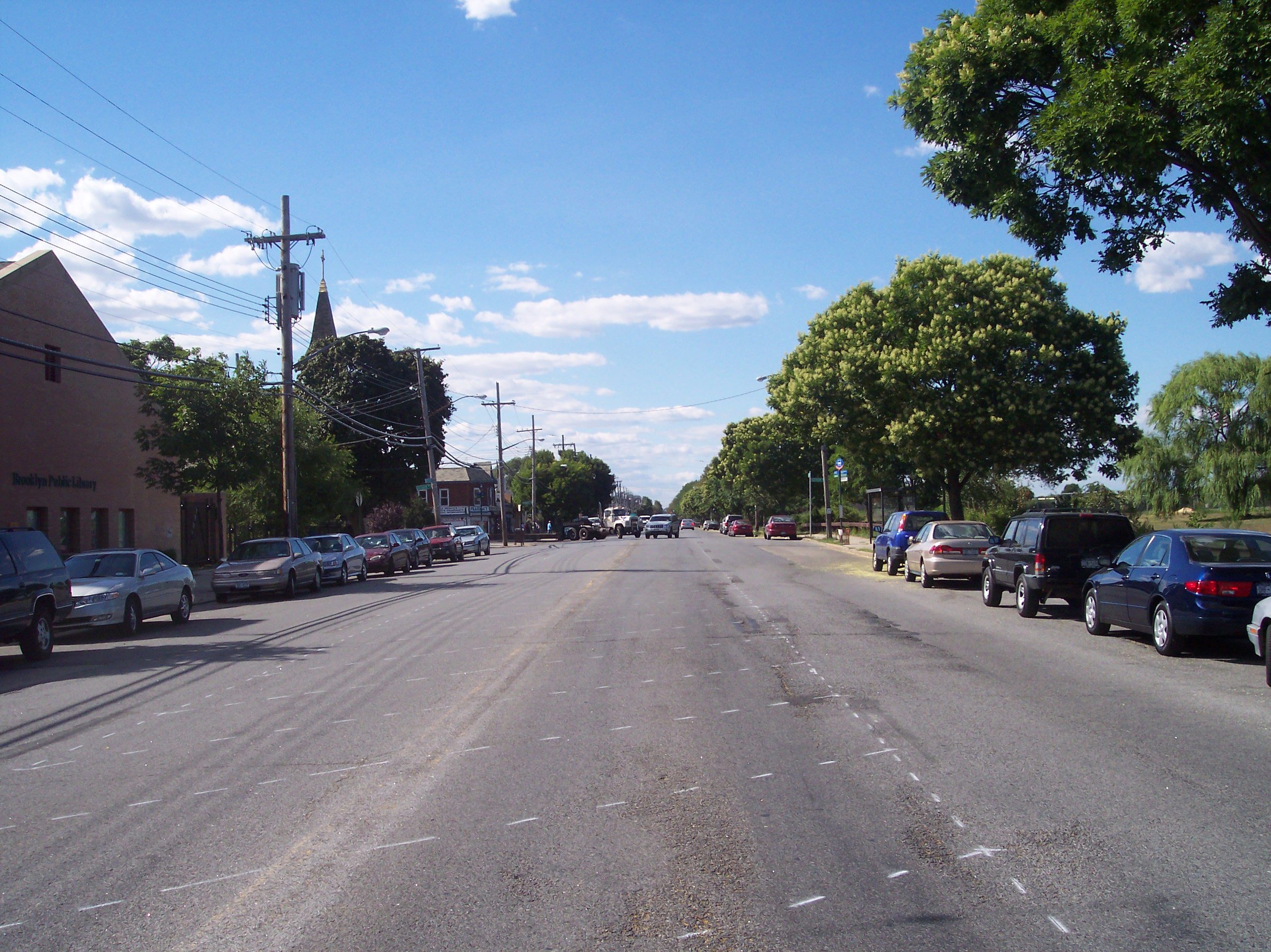 Gerritsen Ave, Gerritsen Beach, Brooklyn, New York. Camera location on Gerritsen Avenue between Gotham Avenue and Bartlett Place, in front of the Gerritsen Beach Public Library.